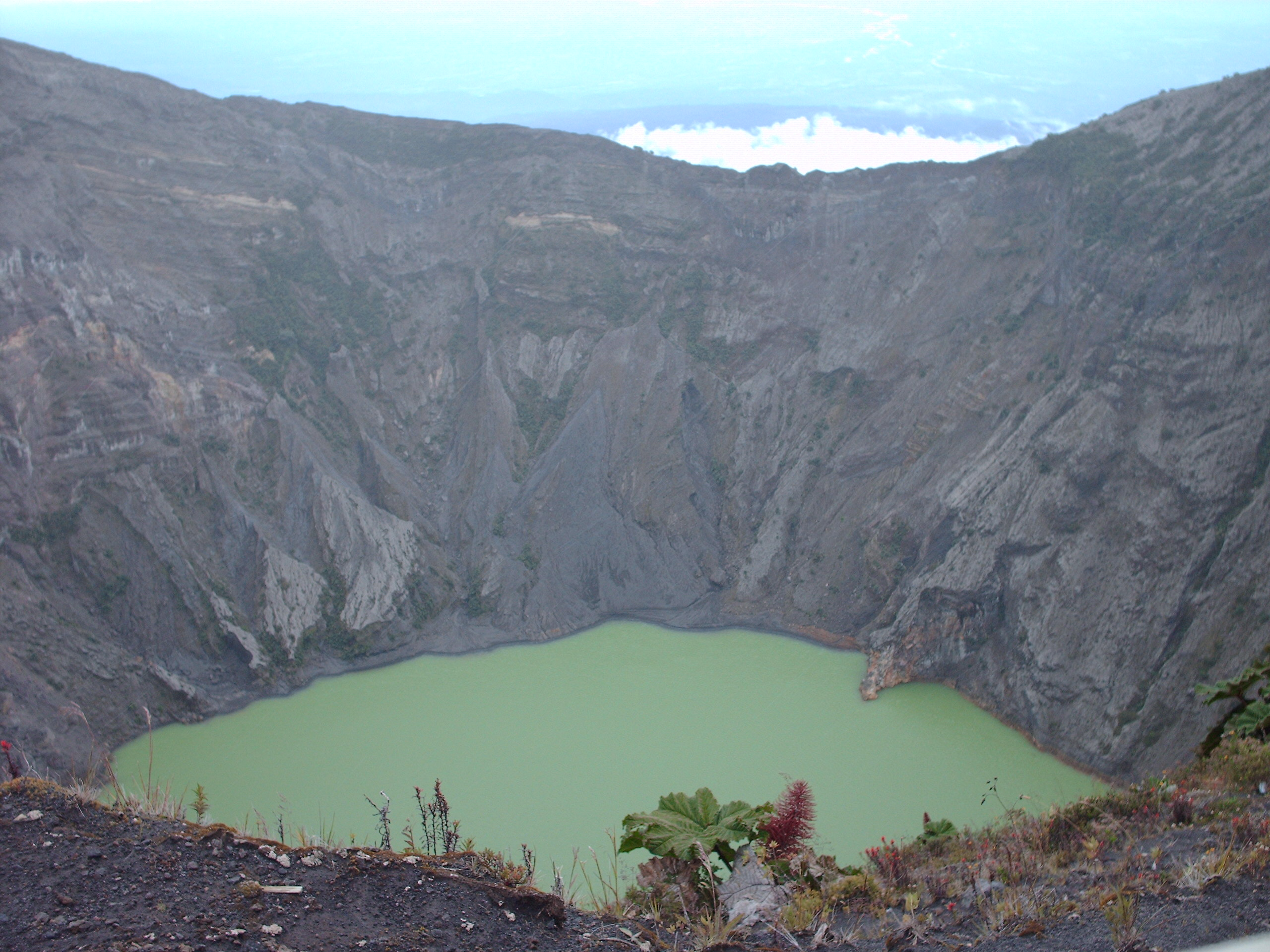 Irazú volcano, Principal Crater